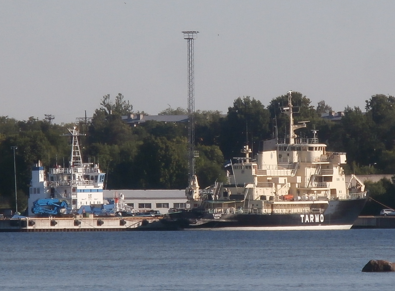 EVA 316 at quay 2 and Tarmo at quay 4 in Hundipea sadam Tallinn 28 June 2018